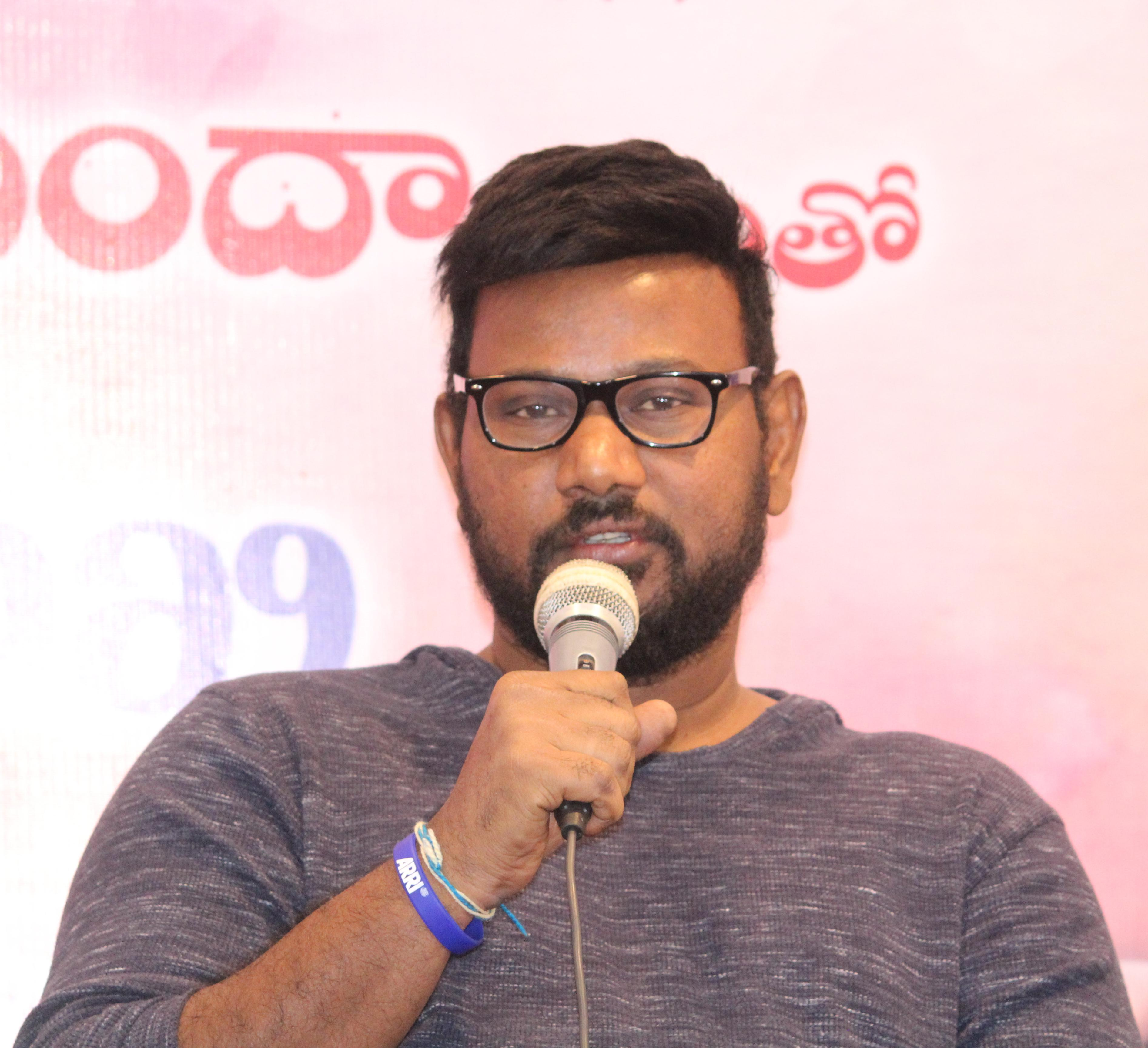 P. G. Vinda in Cinivaram, Ravindra Bharathi, Hyderabad